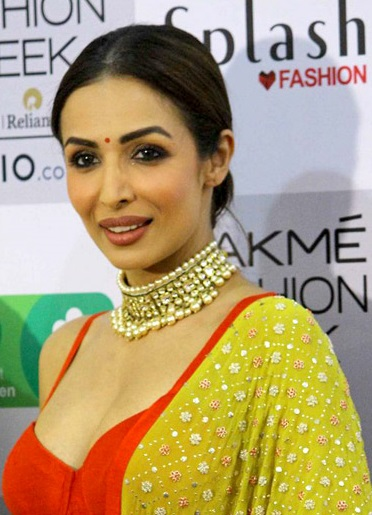 At Lakmee 2017